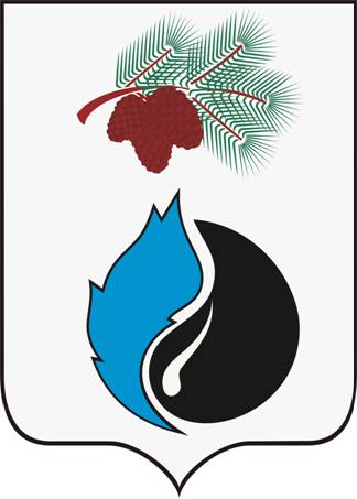 Coat of arms of Kedrovy, Tomsk Region, Russia